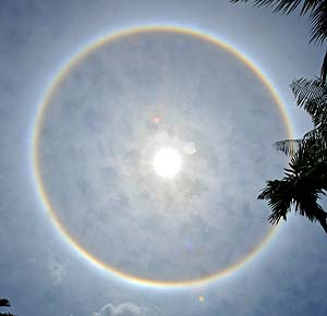 22 degrees Halo around the Sun (or possibly Circumscribed Halo, indistinguishable from the 22° Halo at high Sun), resulting from the refraction of light in ice crystals.